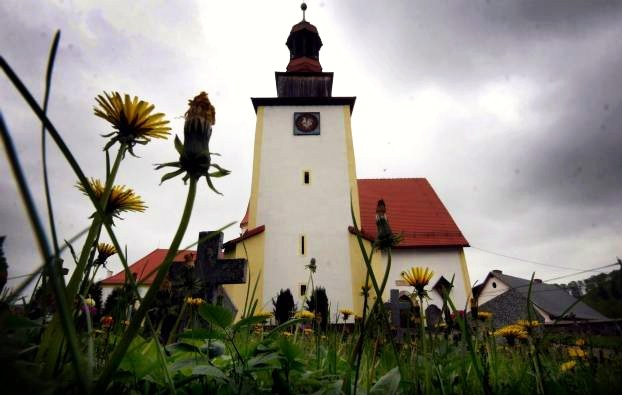 Church in Janowice Wielkie